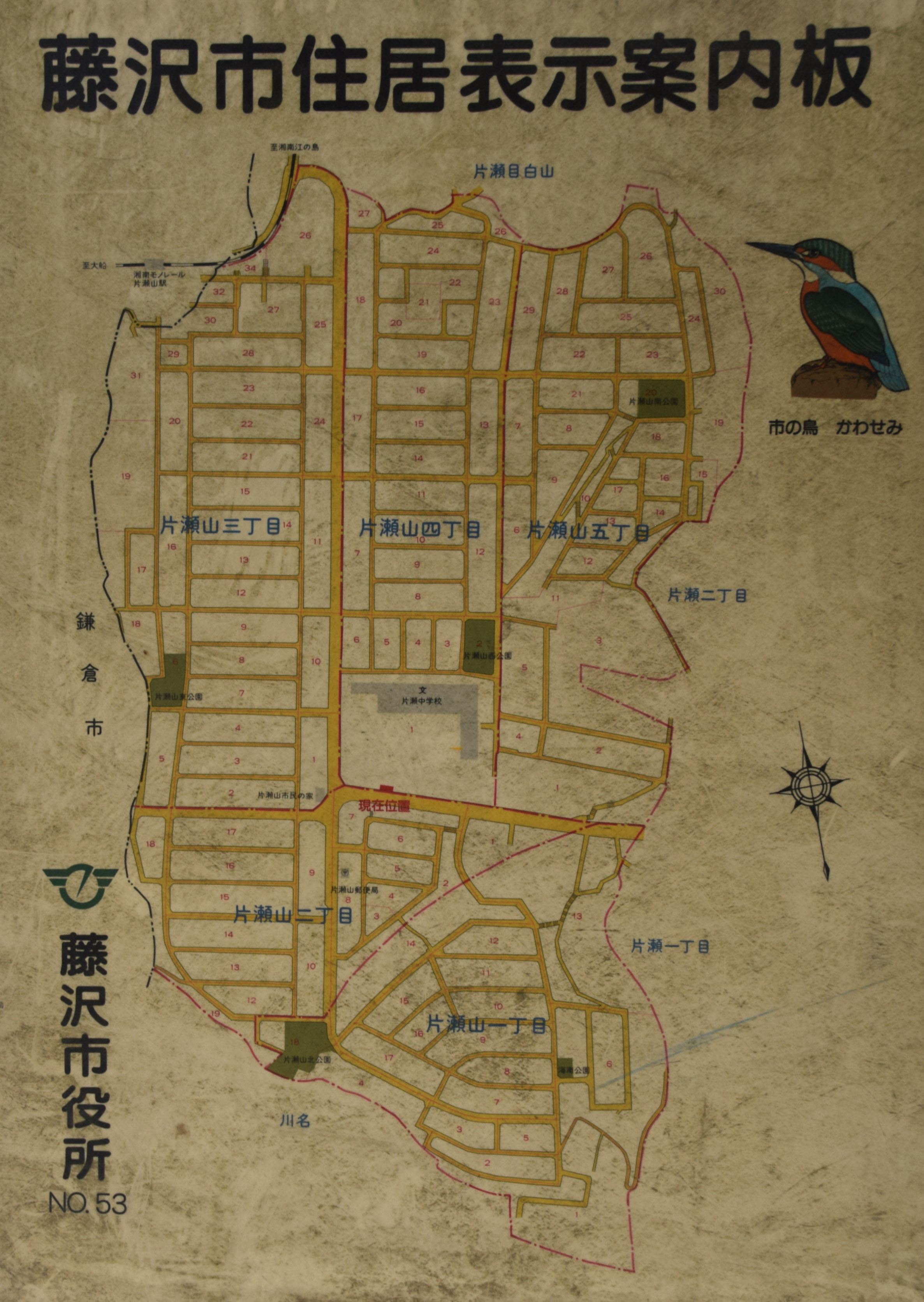 Kataseyama, Fujisawa, Fujisawa, Kanagawa, Japan - Map